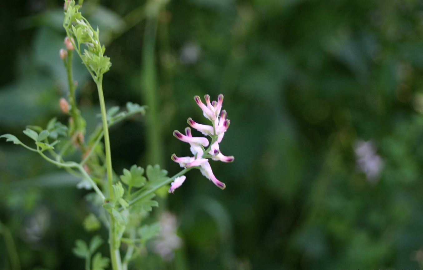 Fumaria muralis: Flower head